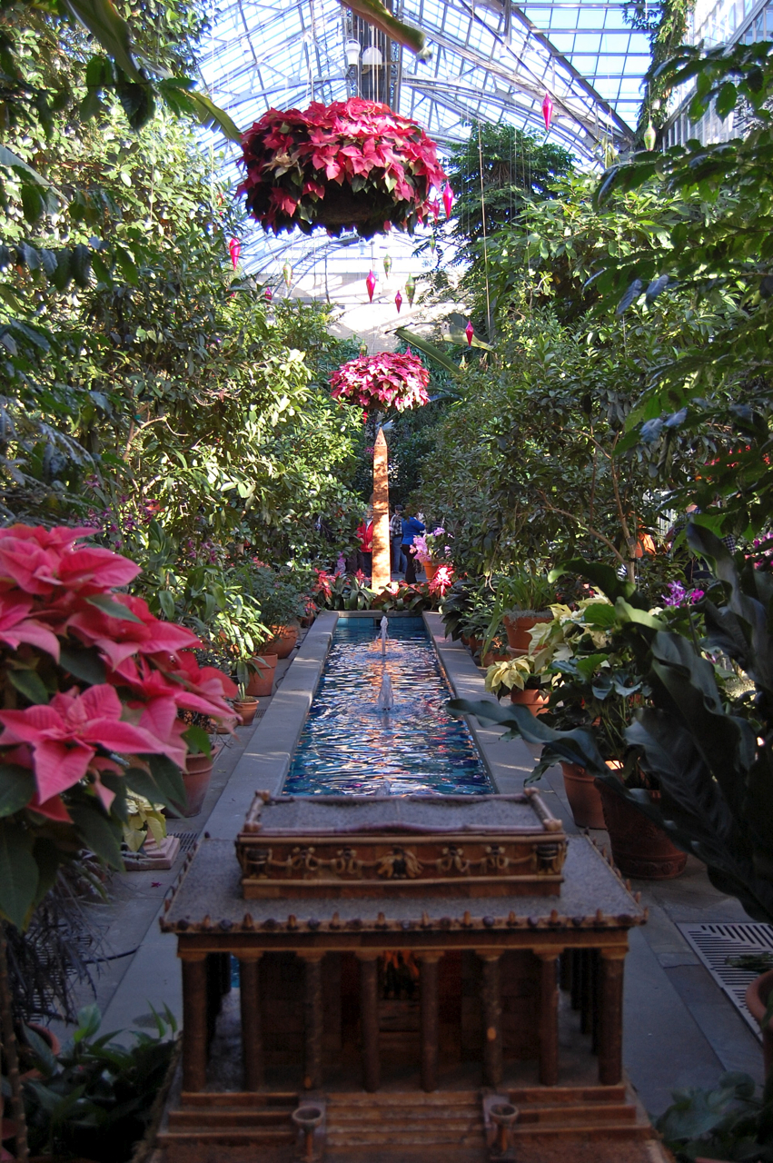 A model version of the Washington Monument, Reflecting Pool and Lincoln Memorial found inside the US Botanic Garden.